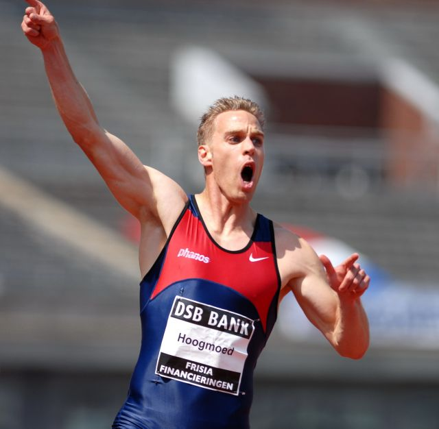 Guus Hoogmoed during Dutch Championship 2007 in Amsterdam